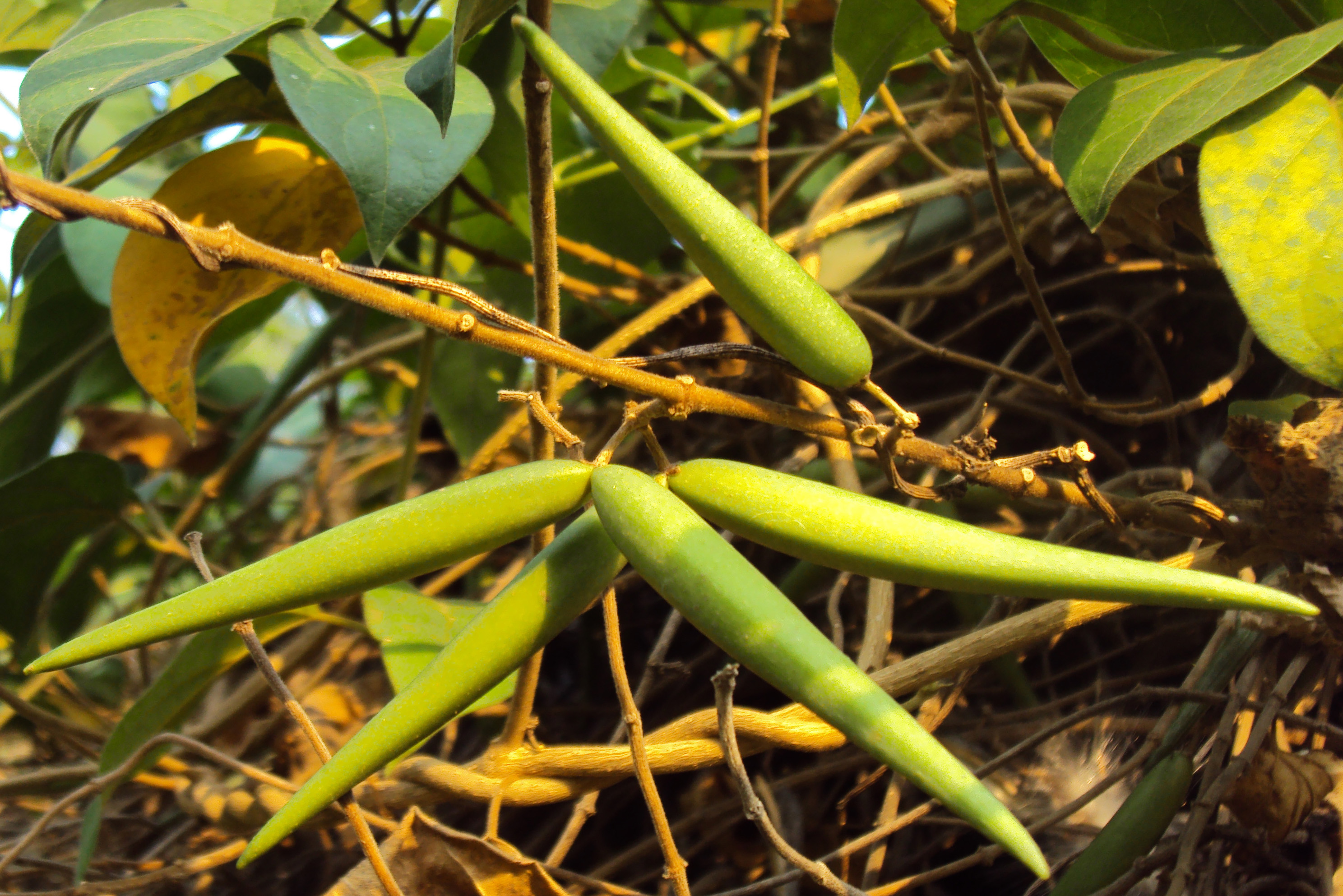 Gymnema sylvestre beans. ചക്കരക്കൊല്ലി